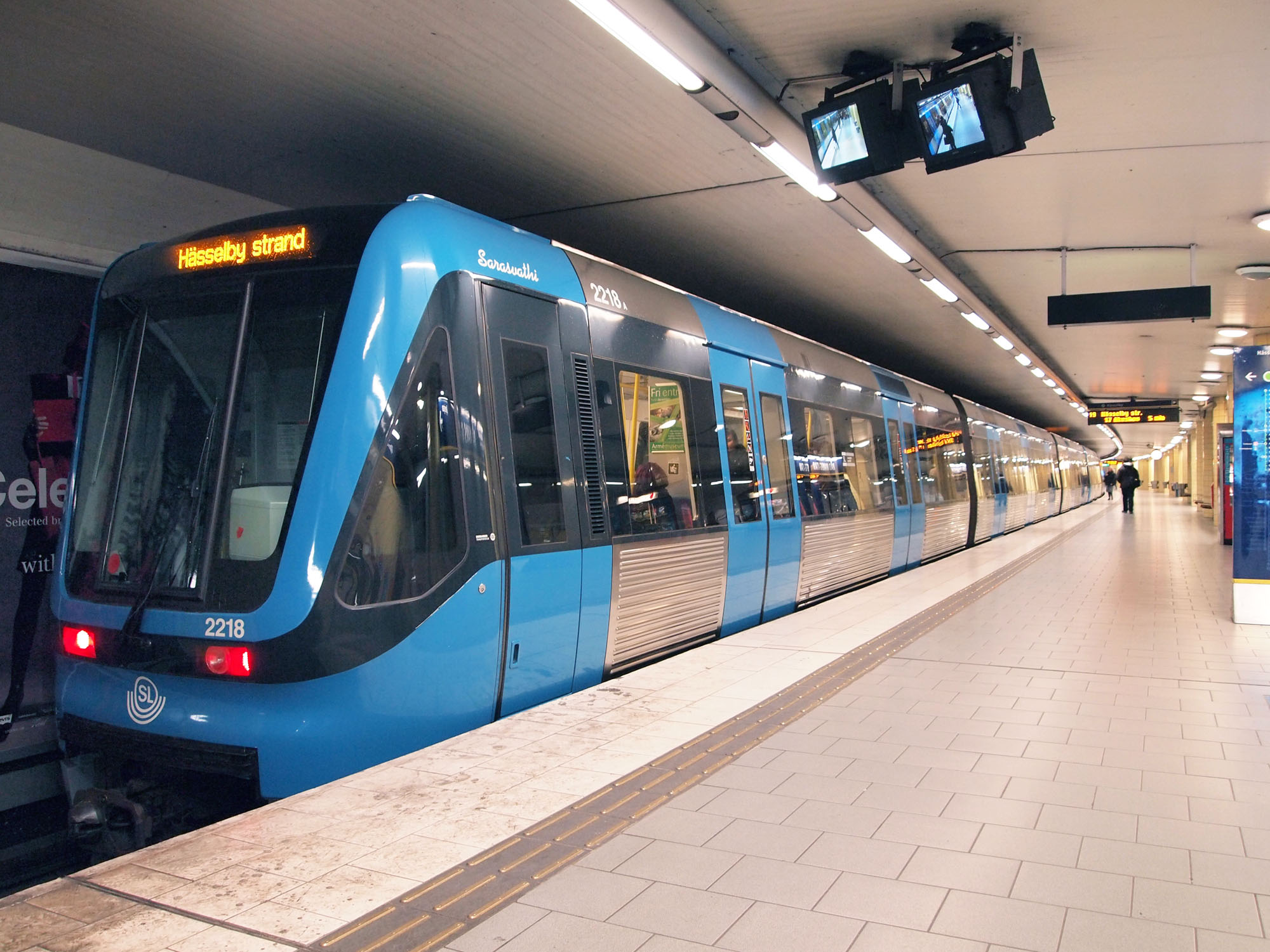 A C20 metro train in Sankt Eriksplan metro station. This photograph was taken with an Olympus E-PL1.